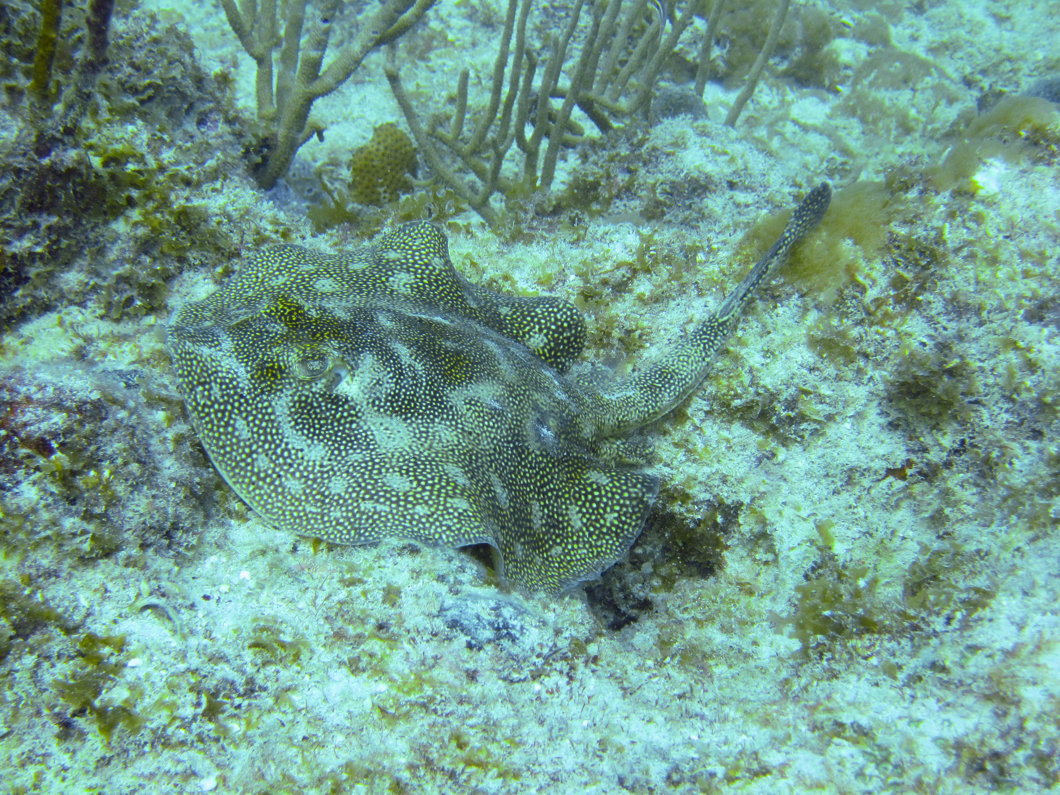 Yellow stingray (Urobatis jamaicensis) off Miami.